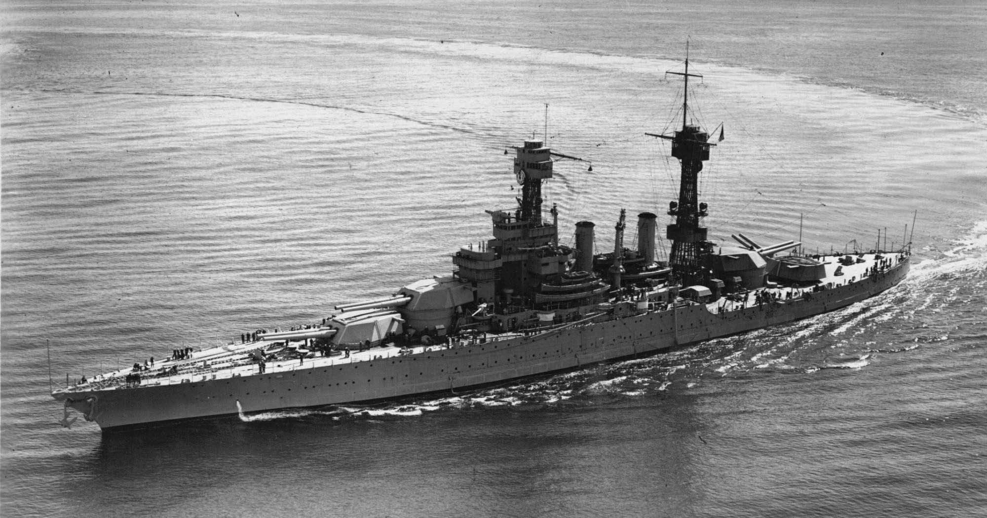 Colorado (BB-45) comes about after making a wide turn, possibly near San Diego in October 1924.